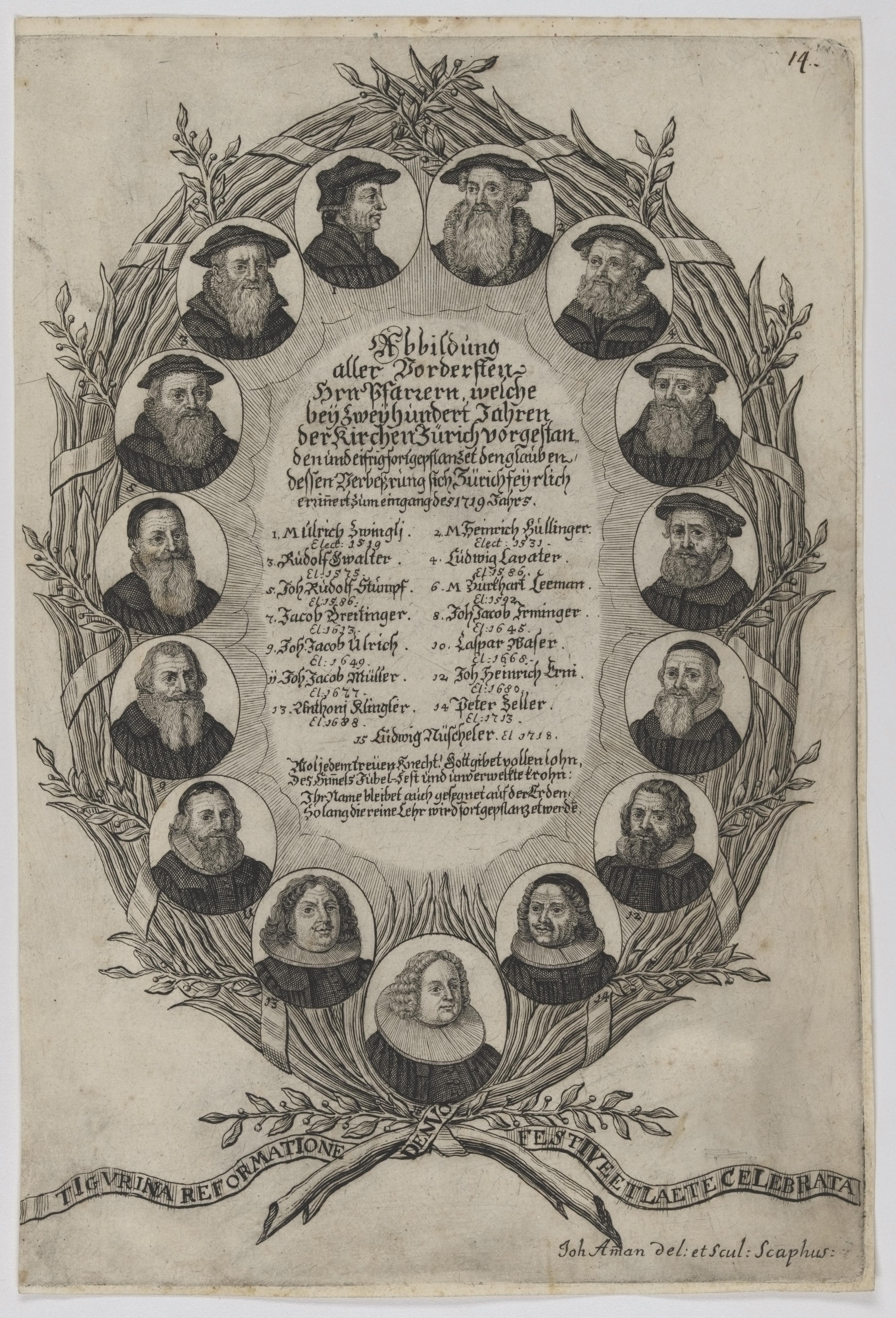 Group portrait of the Antistes of Zurich